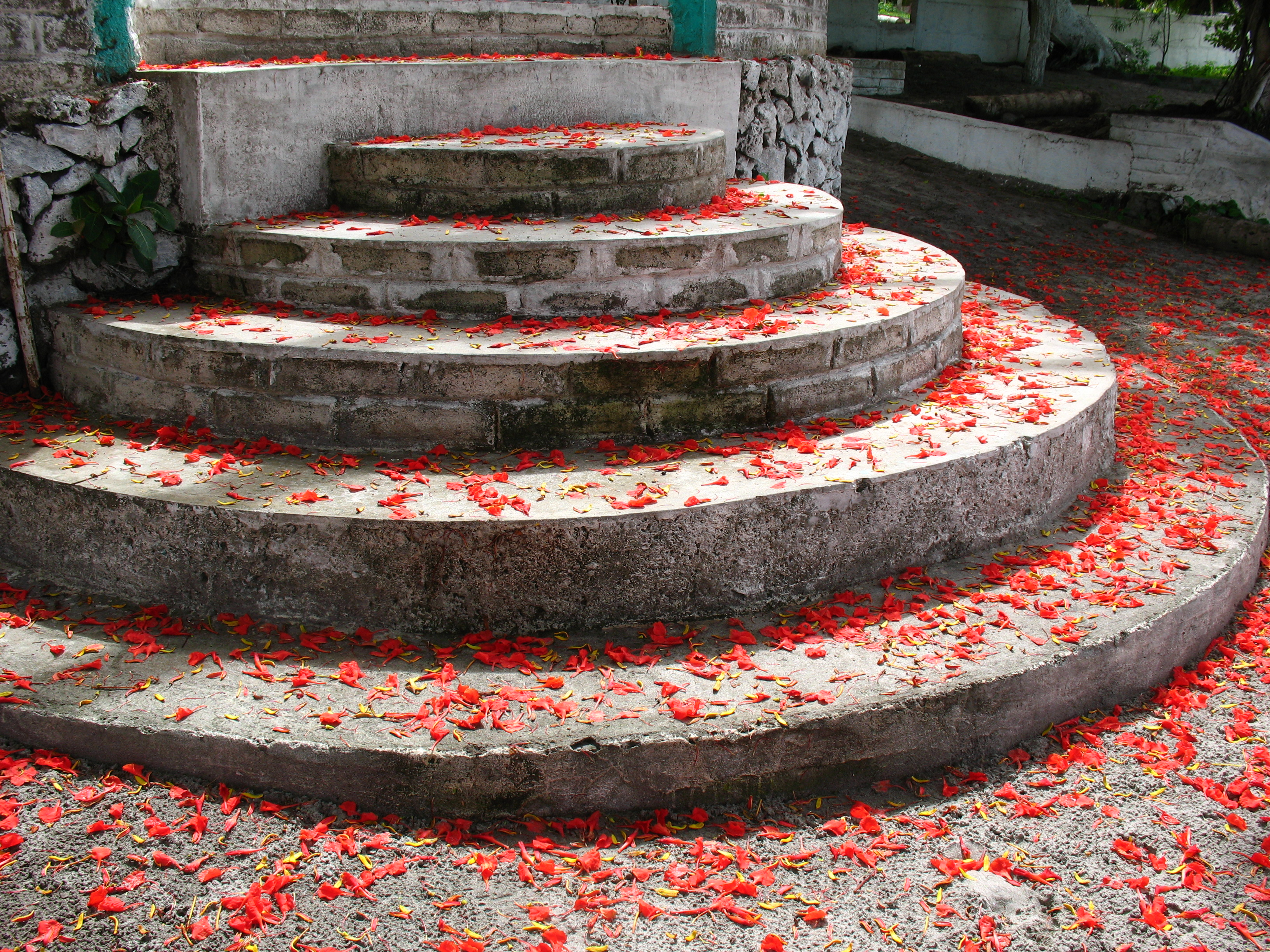 Hojas de un Malinche (Delonix regia) en una playa del Lago Nicaragua en la Isla de Ometepe. The leaves of a Malinche (Delonix regia) on a beach in Lake Nicaragua.